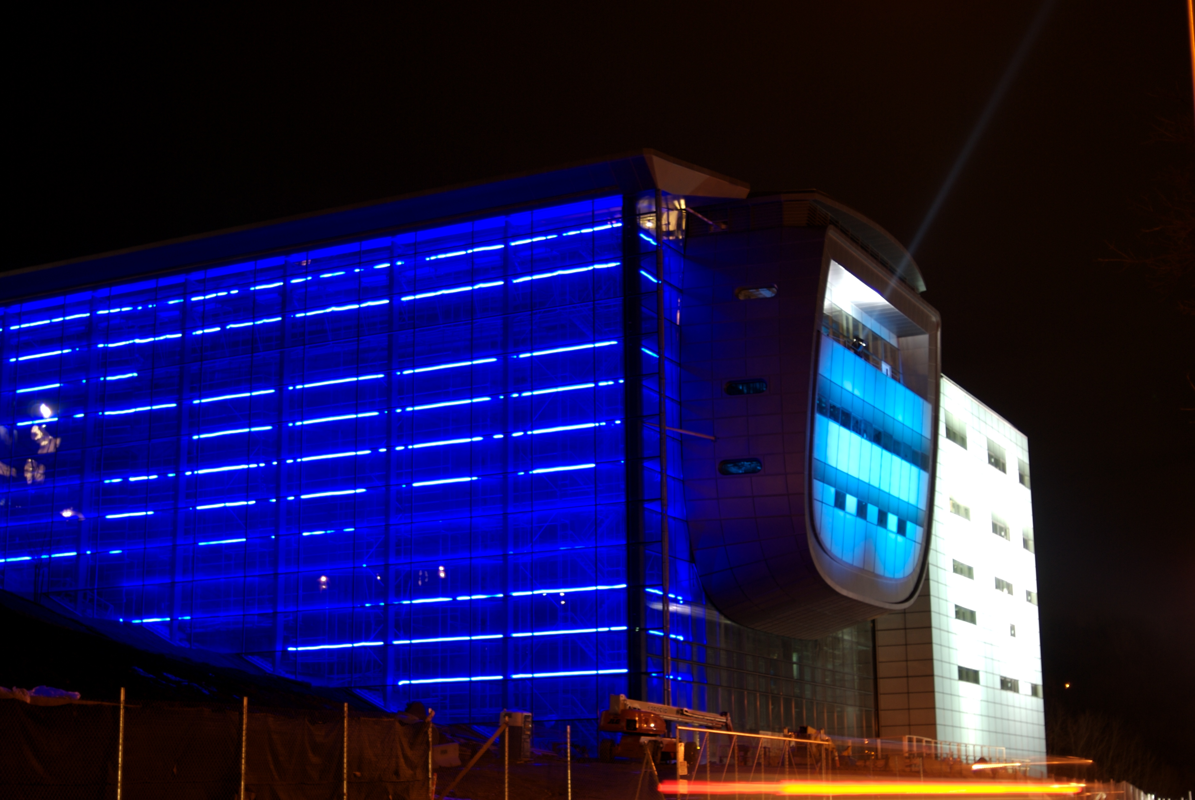 EMPAC, (under construction), RPI, Troy, NY